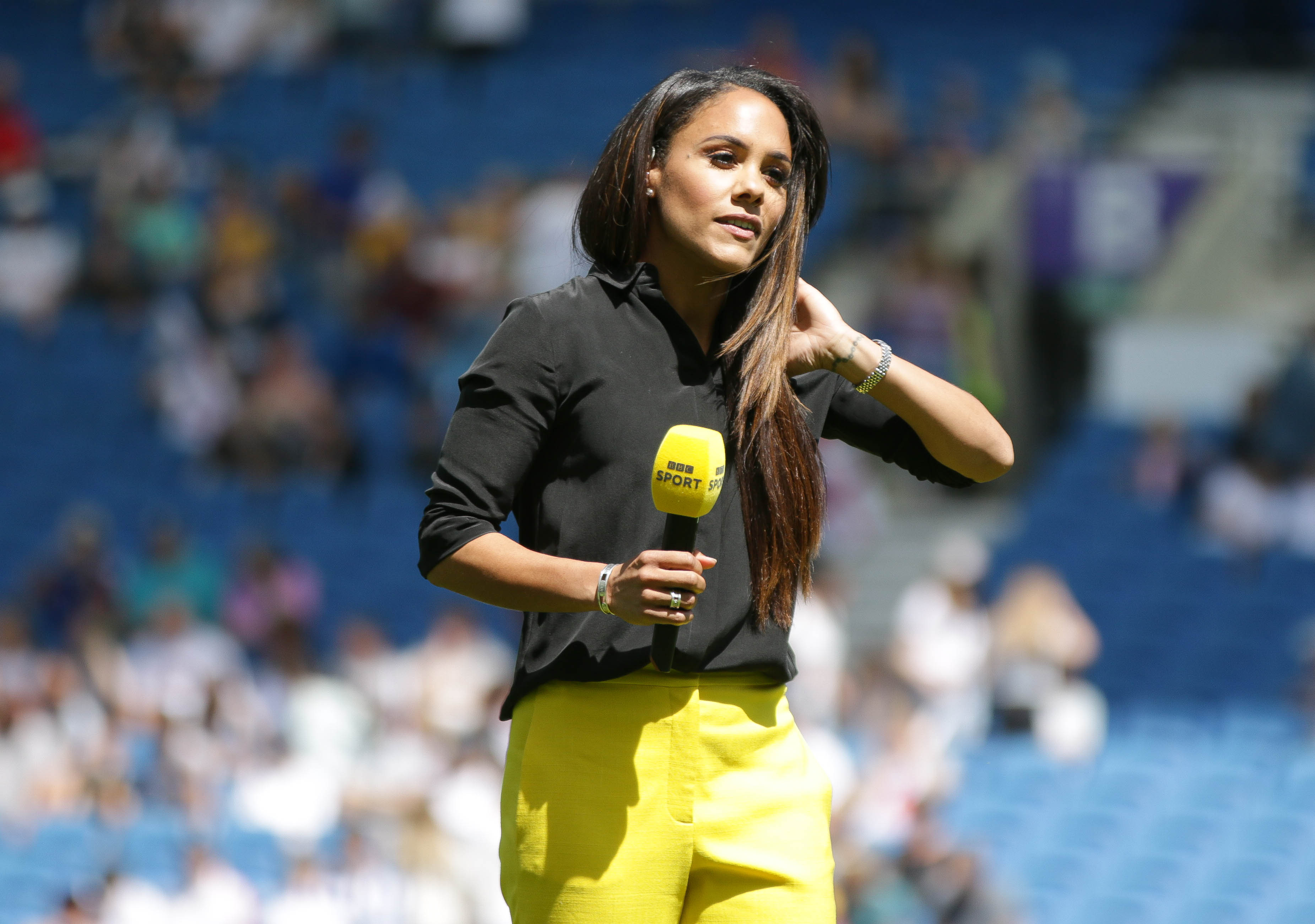 England Women 0 New Zealand Women 1 01 06 2019-67.jpg